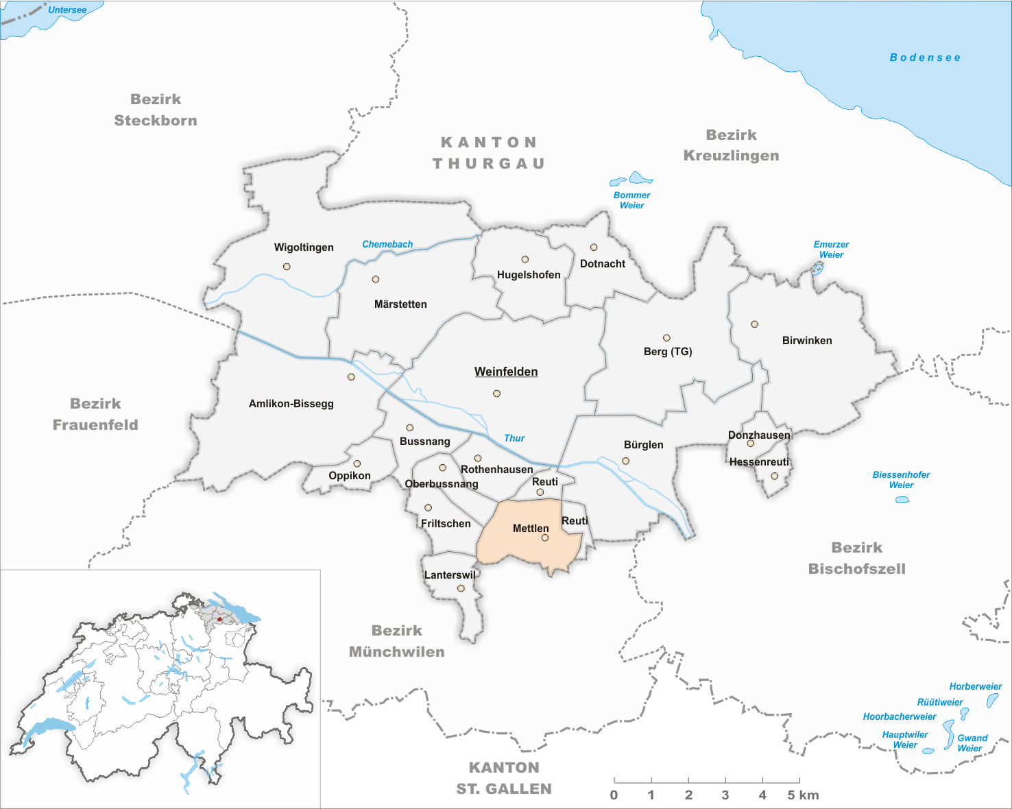 Municipality Mettlen